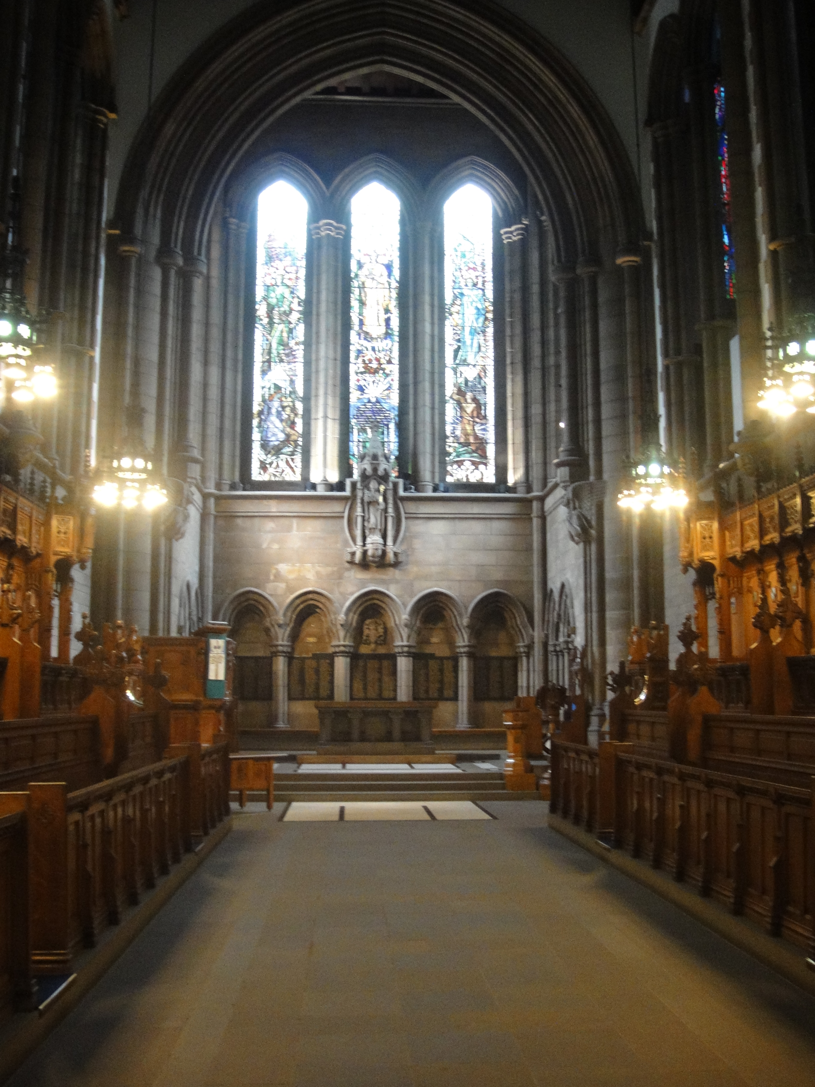 Interior of the chapel of the University of Glasgow.